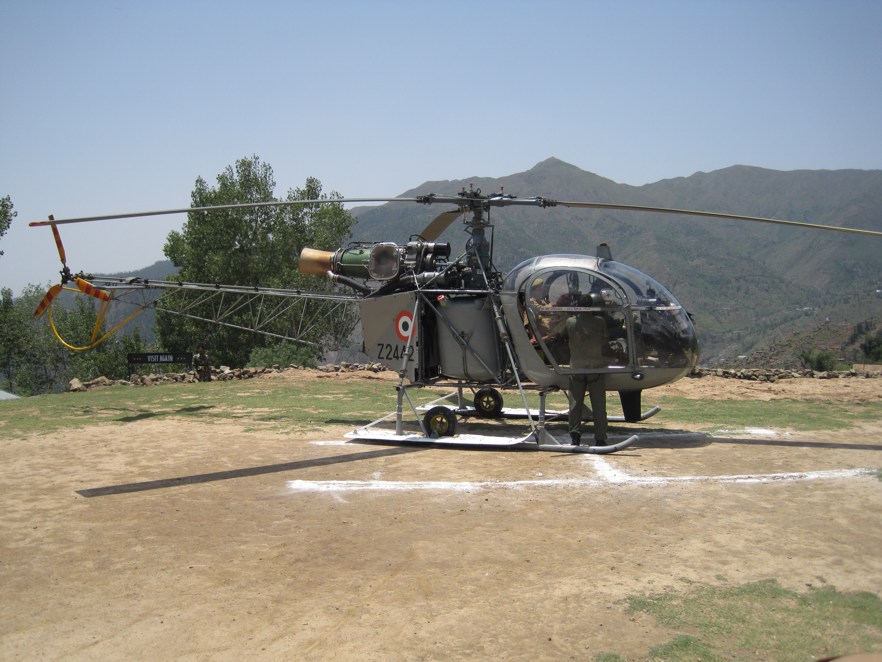 An Indian Air Force Cheetah evacuating ill J&K Police Personnel. Photograph taken in Bani region of Basoli Tehsil, Kathua District, Jammu and Kashmir, India.